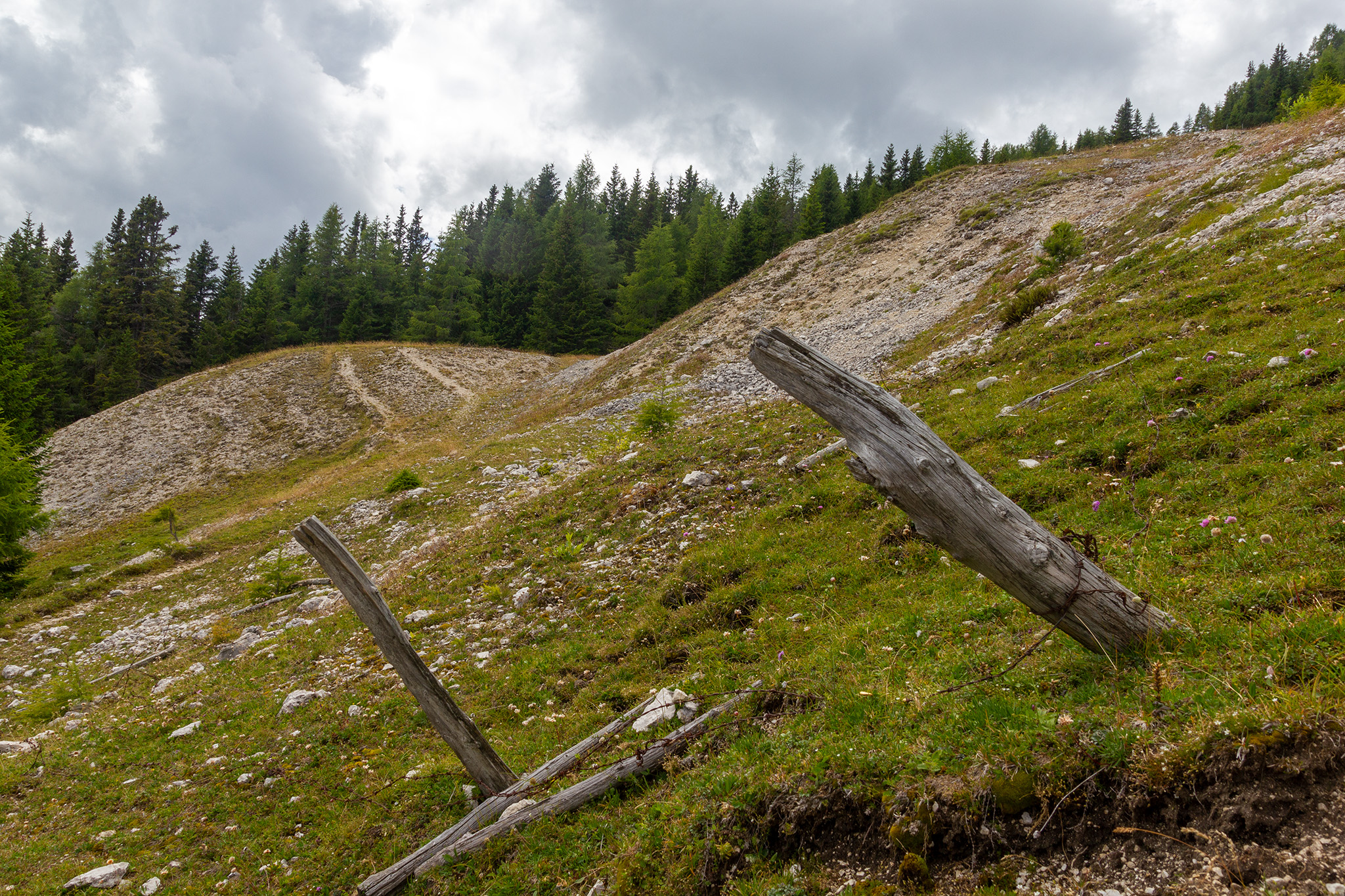 Mine dump of the former lead mining at Hochobir (Karawanks, Carinthia, Austria).